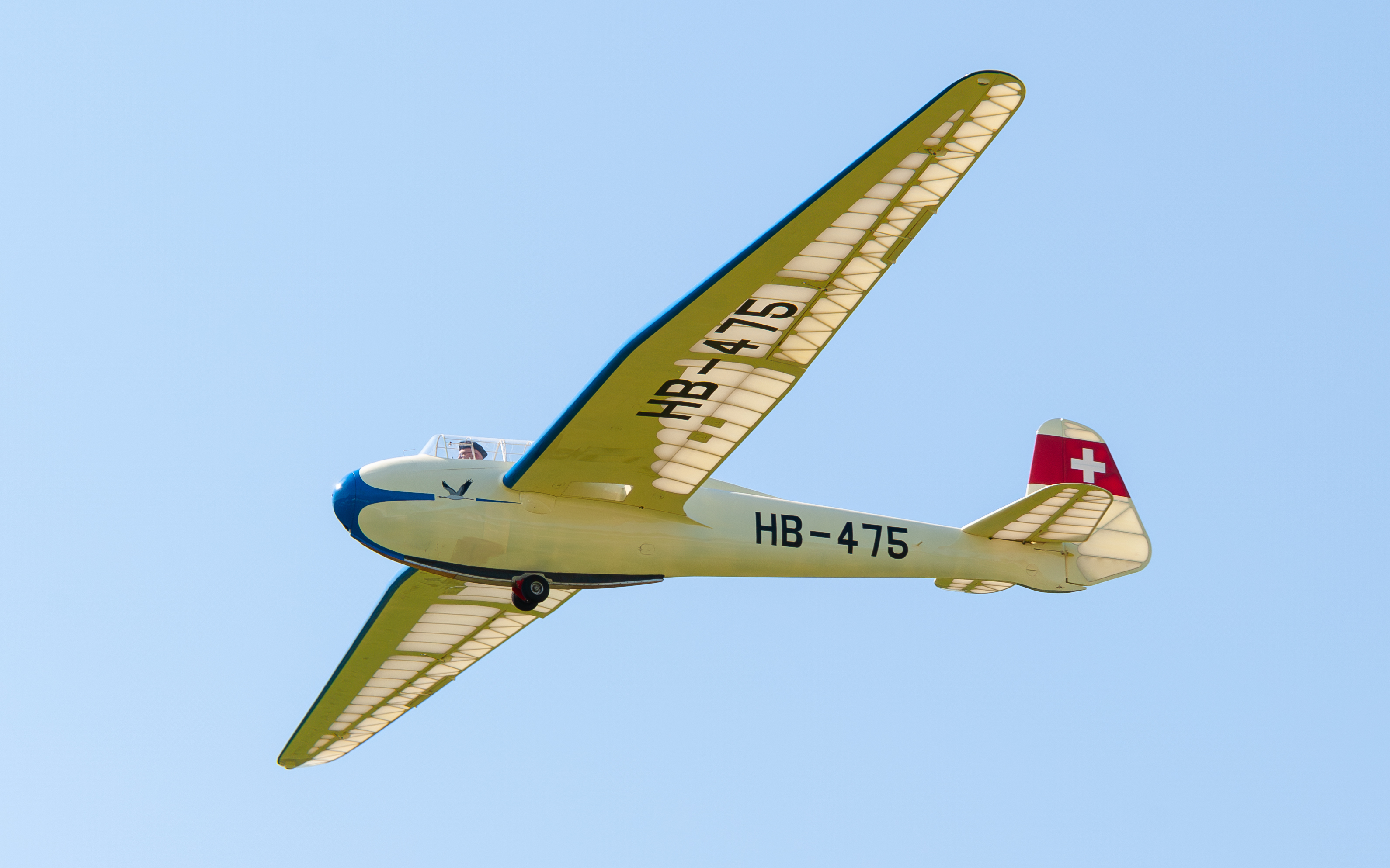 DFS Kranich II-B1 (reg. HB-475, built in 1938).